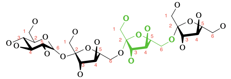 This is the linear beta 2,6 glycosidic linkages of Levan